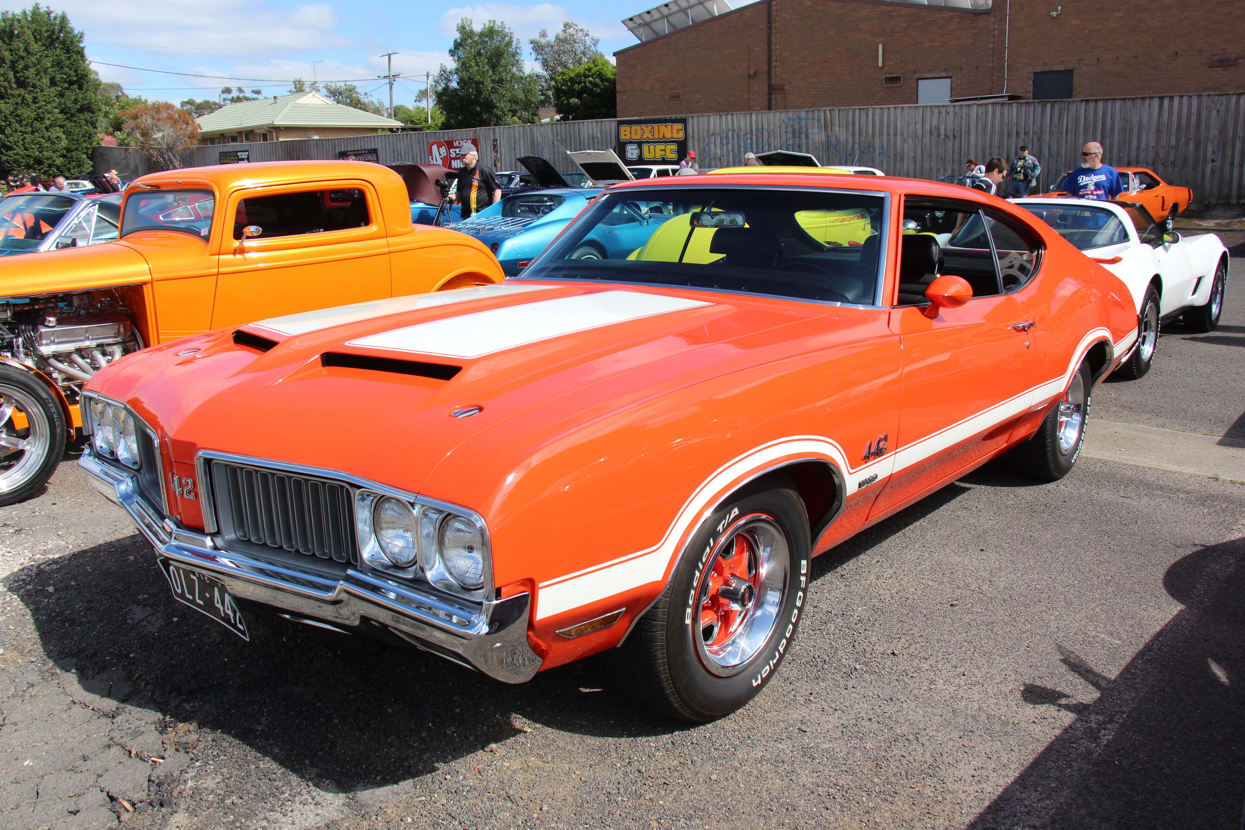 The Cutlass was introduced in 1961 as the top model in the F-85 line, the high performance 442 introduced in 1964. (4 barrel, 4 speed, and dual exhausts) The 3rd generation ran from 1967-72, they got coke bottle styling, 2 door models got a semi fastback roofline. They were available in base, Cutlass S, Cutlass Supreme and the high performance 442. The 69 facelift was the first of the split grille look cars with vertical bars and vertical taillights. All 442s came with bucket seats and a Hurst Dual-Gate shifter in a mini-console 1970 was the pinnacle of performance, the 400 increased to 455 cu in, it came standard with 365bhp. but like this car, the W30 was an extra option on that, it got fiberglass Ram Air hood (option W25) with functional air scoops and low-restriction air cleaner, aluminum intake manifold, special camshaft, cylinder heads, distributor, and carburetor Engine; 370bhp 455 V8 A 1970 Oldsmobile 442 was featured in the chase scene of the movie Demolition Man starring Sylvester Stallone.